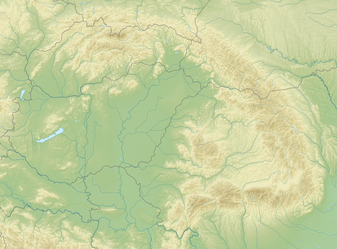 Location map of Carpathians. Projection: Equirectangular projection, strechted by 148.0%. Geographic limits of the map: N: 50.0° N S: 44.25° N W: 16.0° E E: 27.5° E GMT projection: -JX19.473333333333333cd/14.410266666666665cd GMT region: -R16.0/44.25/27.5/50.0r GMT region for grdcut: -R16.0/44.25/27.5/50.0r Relief: SRTM30plus. Made with Natural Earth. Free vector and raster map data @ .